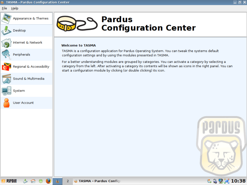 The Tasma configuration tool on the Pardus linux distribution